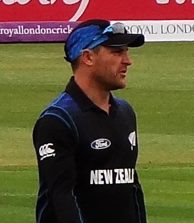 Third ODI between England and New Zealand in 2015